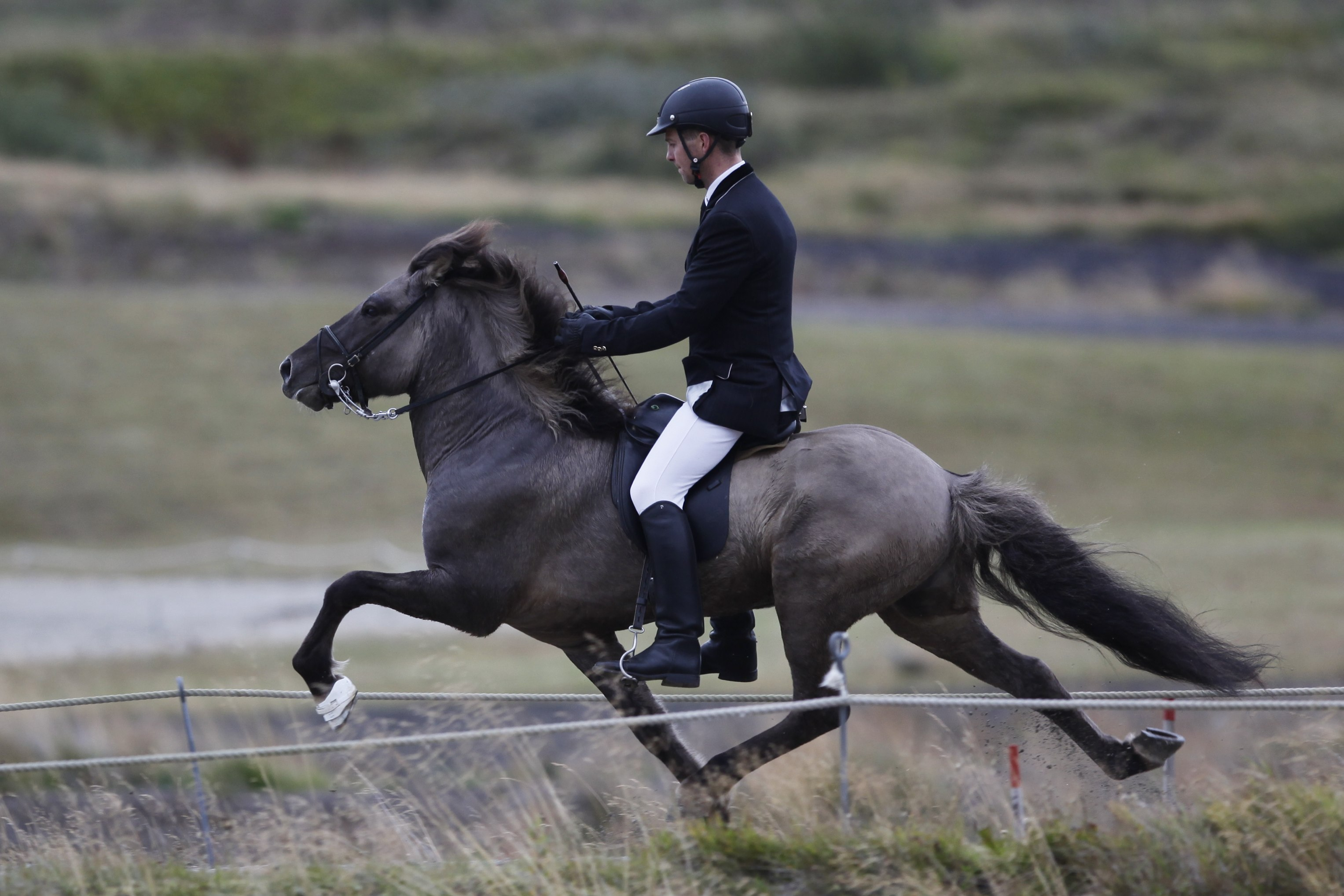 Mouse dun Icelandic horse Skjálfti frá Bakkakoti at high speed tölt. Step pattern at this phase closely resembles pace but one foot will be on ground at all times.